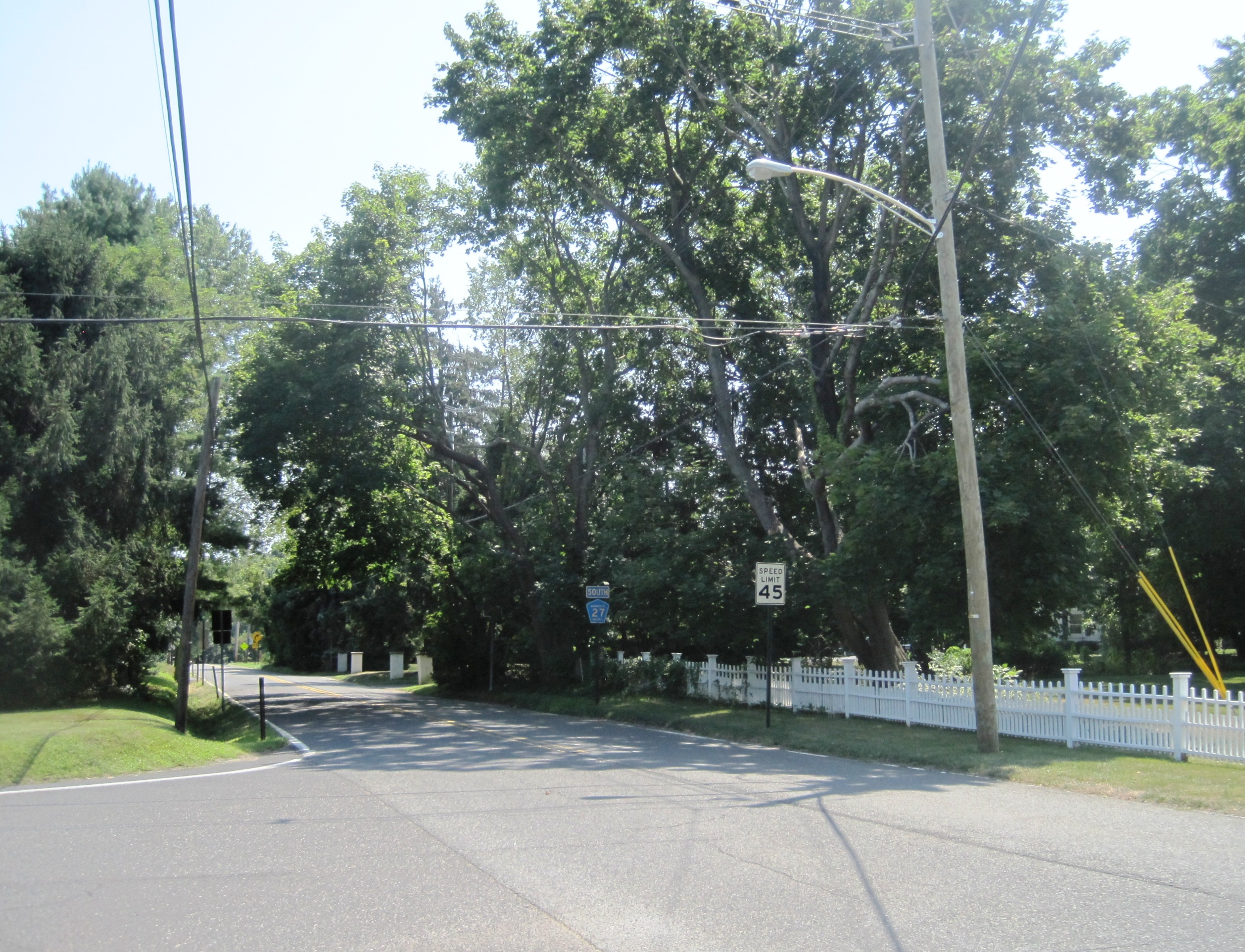 Photo of the unincorporated community of Kirbys Mills, New Jersey within Upper Freehold Township. Photo taken looking south on Holmes Mills Road (County Route 27) at Burlington Path Road.